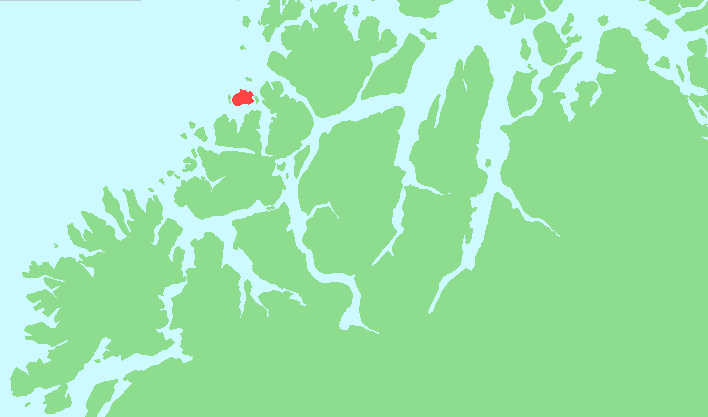 Locator map of Vengsøya, Troms, Norway